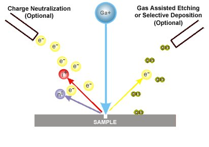 This image shows the principle of FIB.